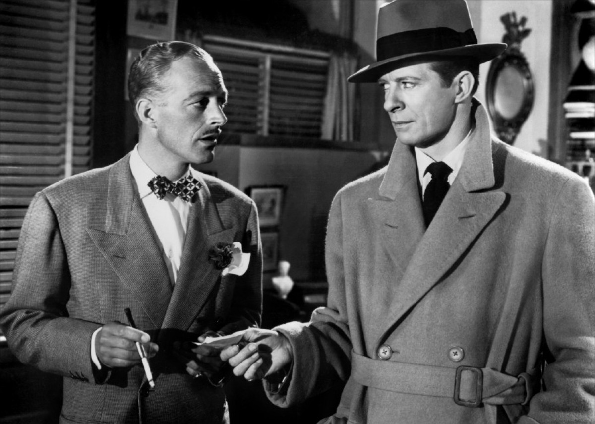 Douglas Walton (left) & Morgan Conway in Dick Tracy vs. Cueball - cropped screenshot